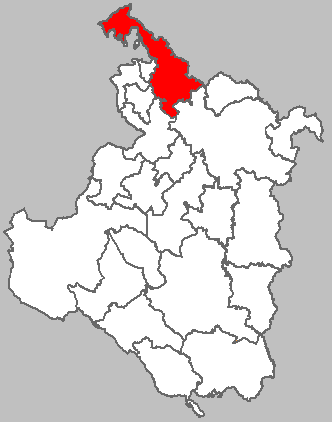 Location of city inside Karlovac County